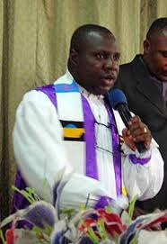 General Overseer